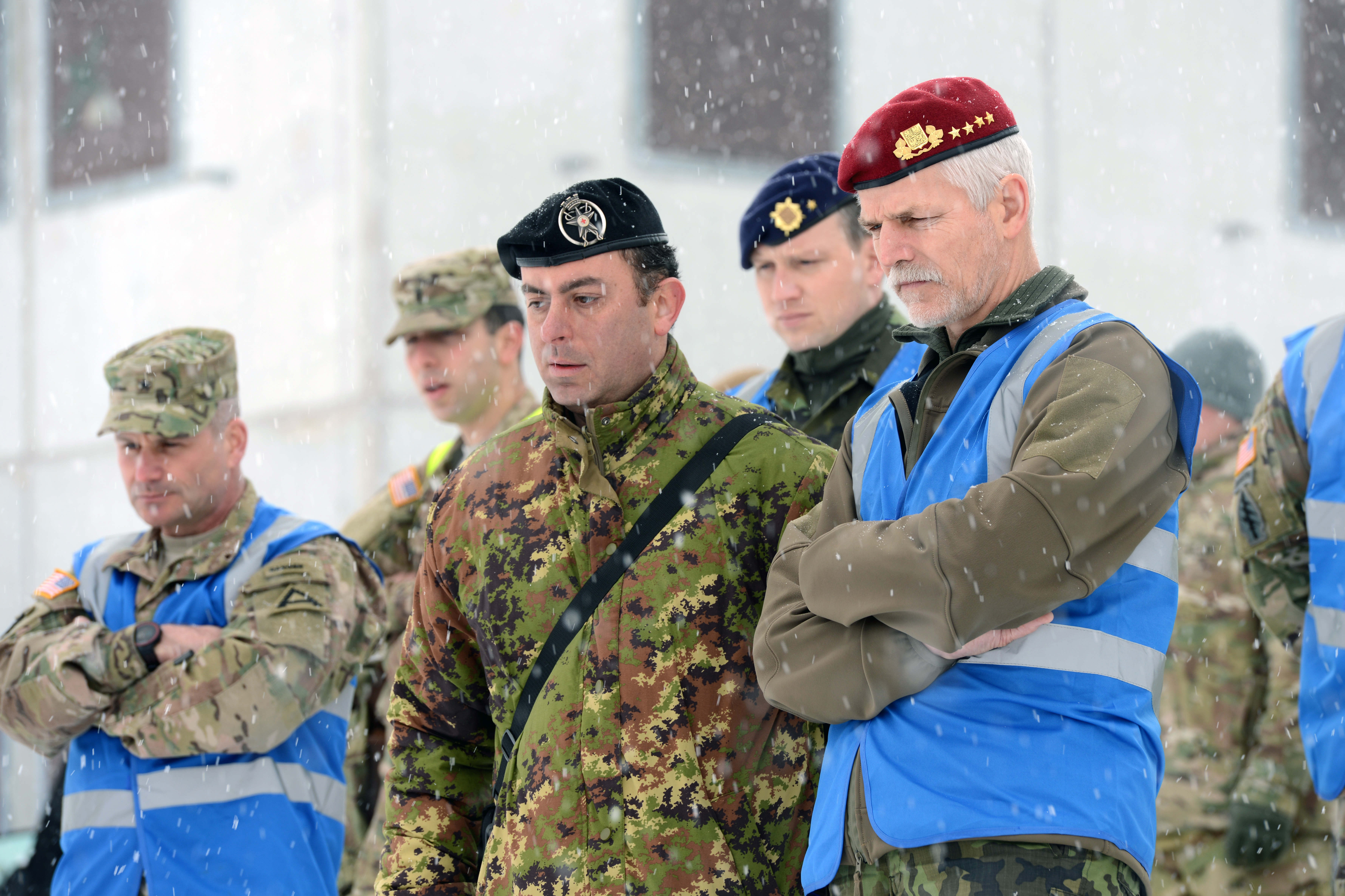 Czech Republic Army Gen. Petr Pavel, chairman of the NATO Military Committee is hosted by the staff of the International Special Training Centre for a tour of the multinational training facility located on Staufer Kaserne, Pfullendorf, Germany, Feb. 25, 2016. (U.S. Army photo by Visual Information Specialist Jason Johnston/Released)